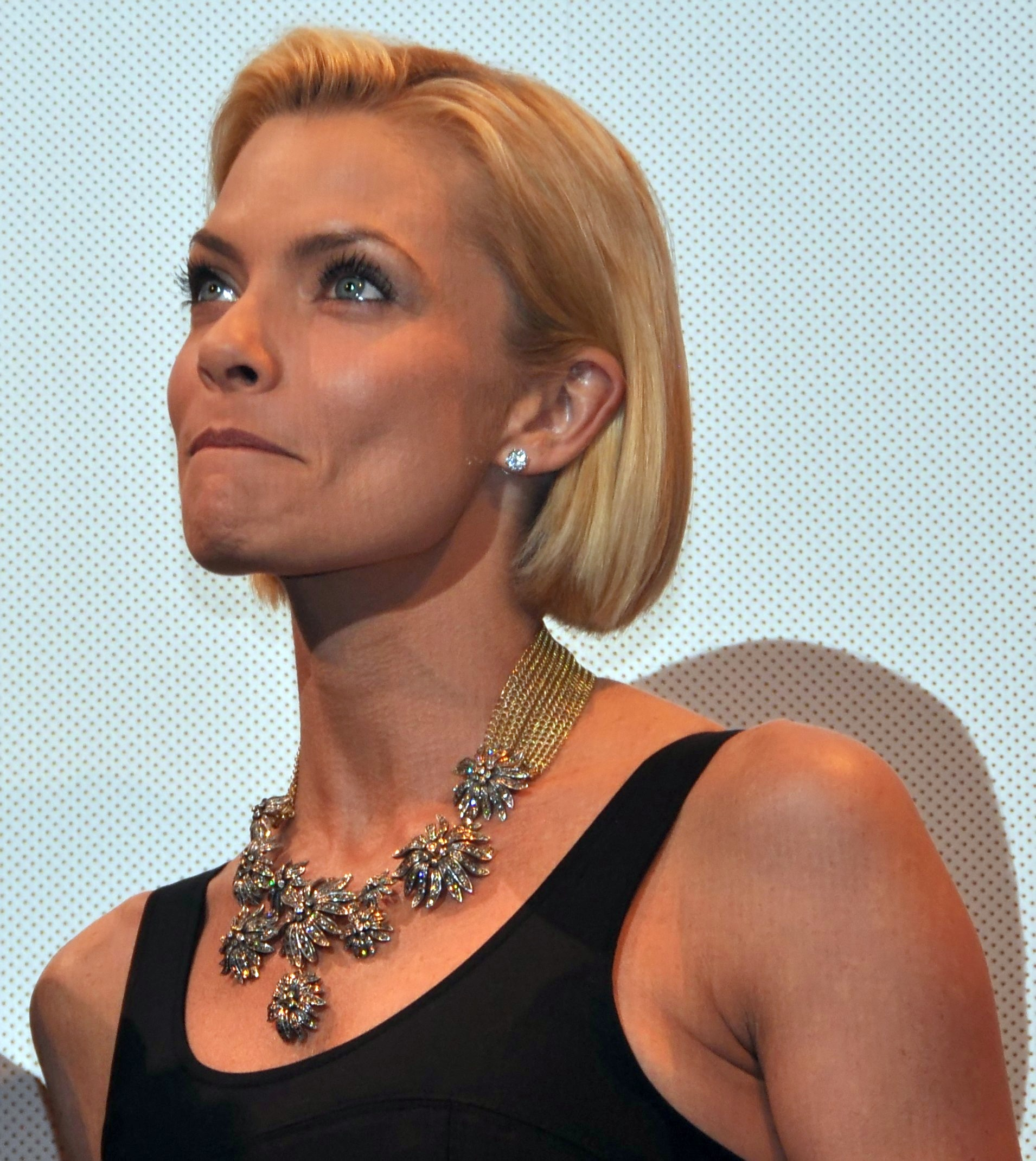 Jaime Pressly at the Austin, TX premiere of I Love You, Man